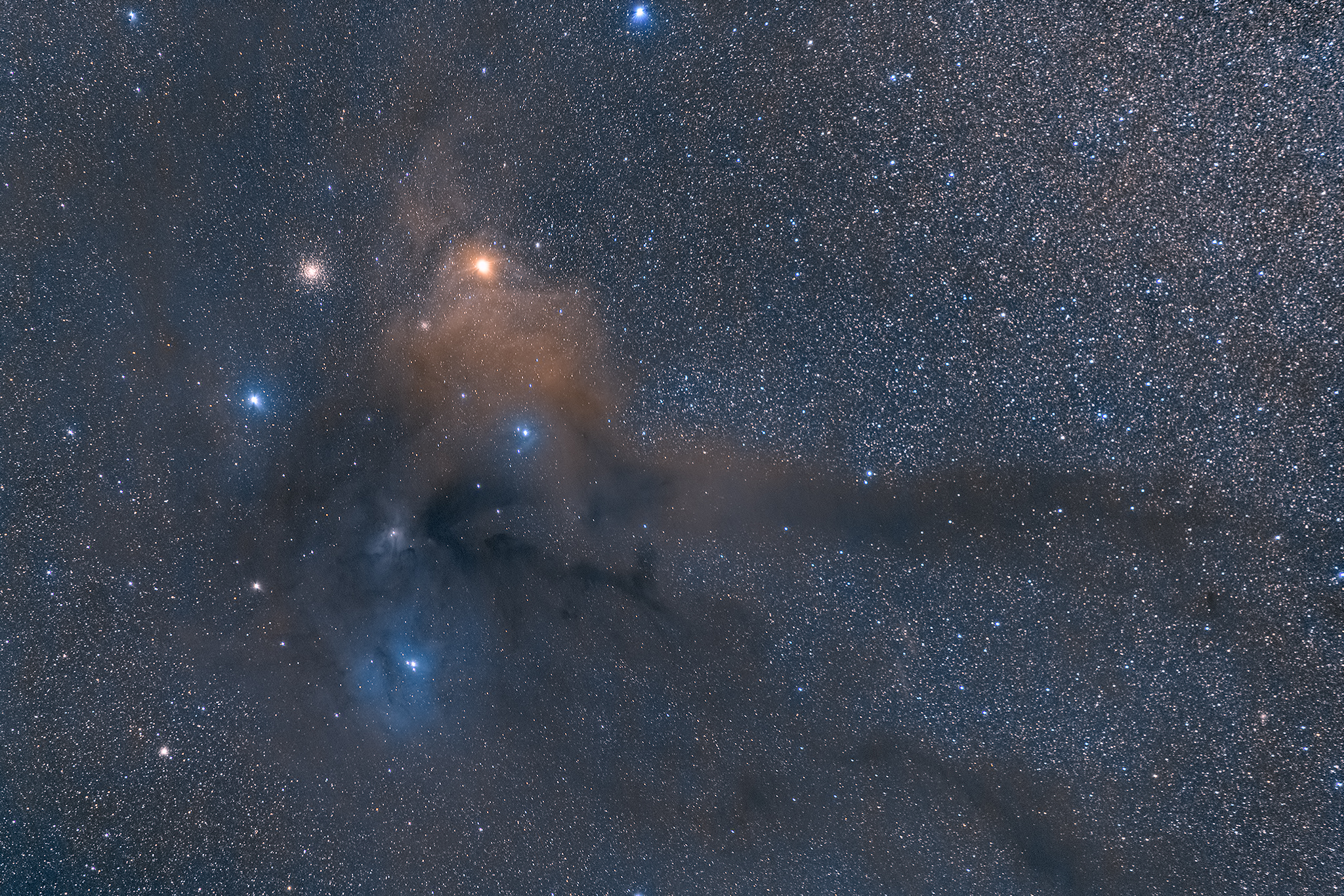 Antares and the Rho Ophiuchus Region This photo is not taken with a telescope, or any special astronomy camera. It’s such an awkwardly large patch of sky the moon would only take up about a centimeter of what you see on your screen. This also means I don’t have the gear for this particular focal length (200mm) as I rarely need this “size” of the sky for photographing space targets generally. So I borrowed this lens from a friend of mine and this was the first thing I wanted to shoot with it and have been meaning to do for years. It’s such a vibrant, colourful, rich and dense star field with huge swathes of dark nebula we just can’t see with our own eyes. The stacked image is only made of 30 second exposures though over about 25 minutes total. ISO 6400 / F4 with Canon 6D mk II. Unguided but tracking piggyback on a Celestron CGX mount.